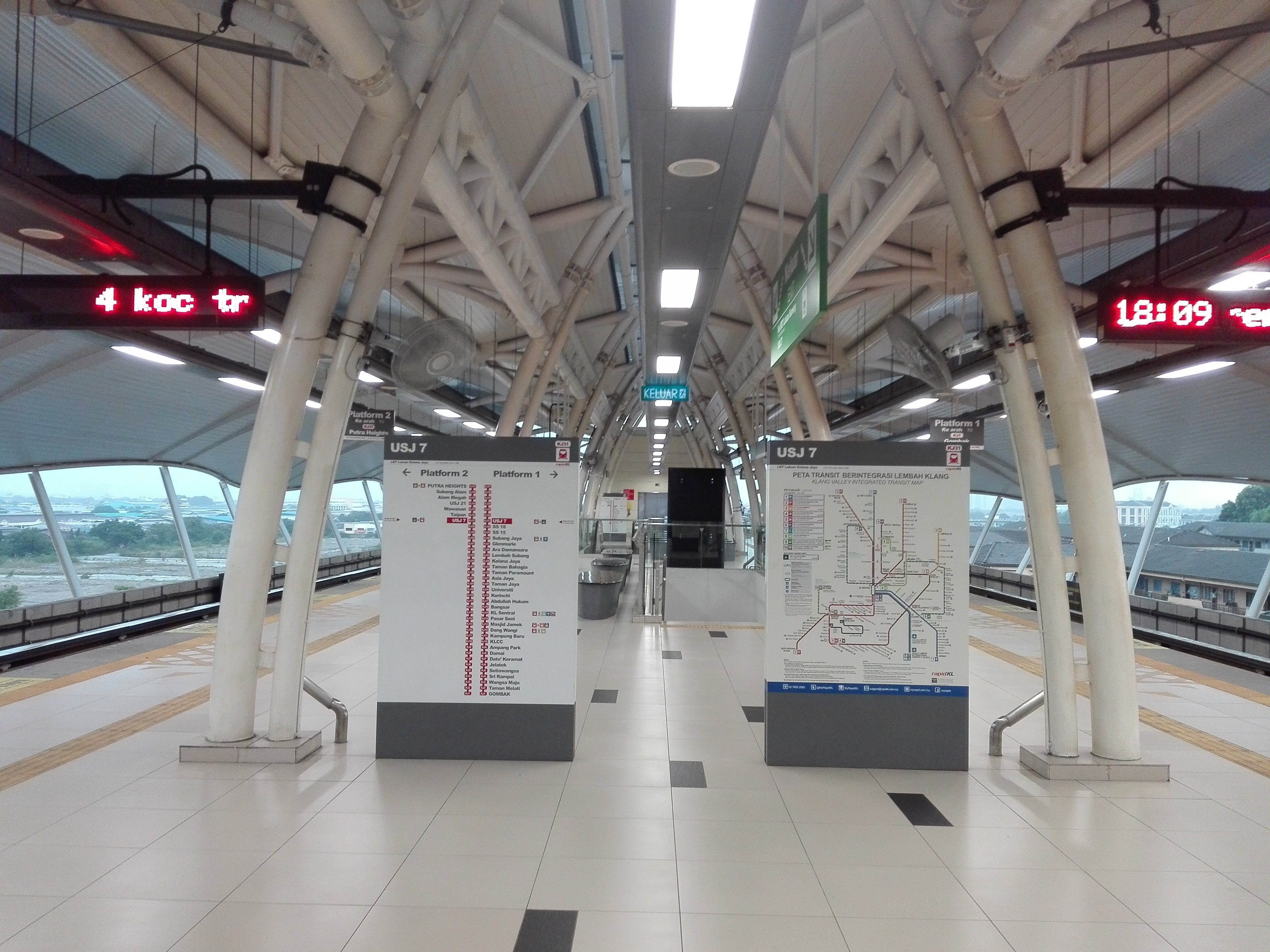 The USJ 7 LRT island platform.